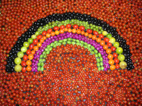 ex of high contrast in these [mostly inedible] berries